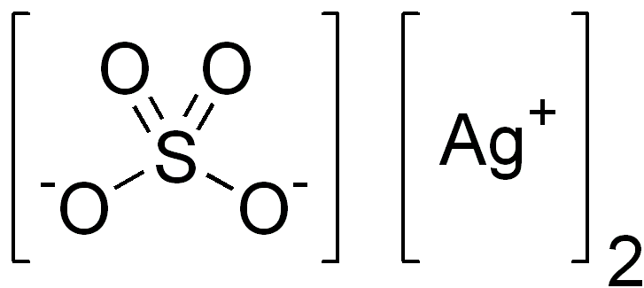 chemical structure of silver sulfate